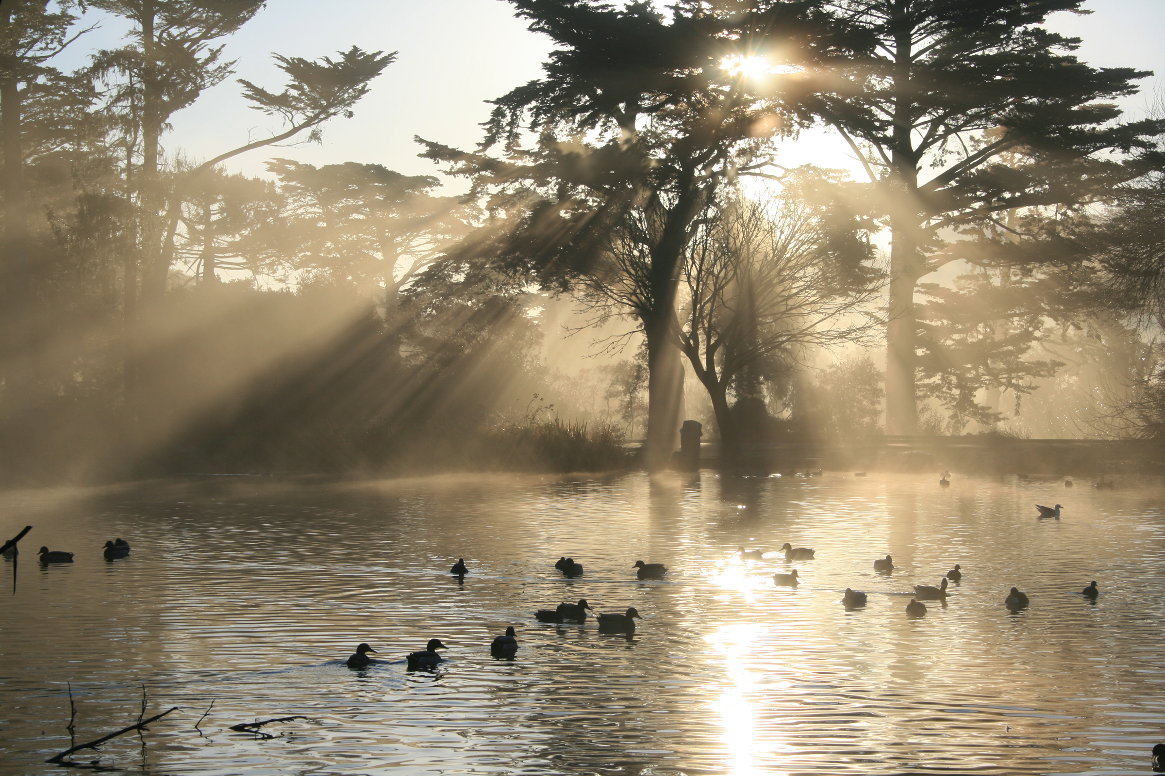 Crepuscular Rays. In the middle left of the image one could also see a different set of the rays coming upward from the lake. The light source for these rays is the Sun's reflection. The image was taken at Stow Lake in Golden Gate Park, San Francisco.